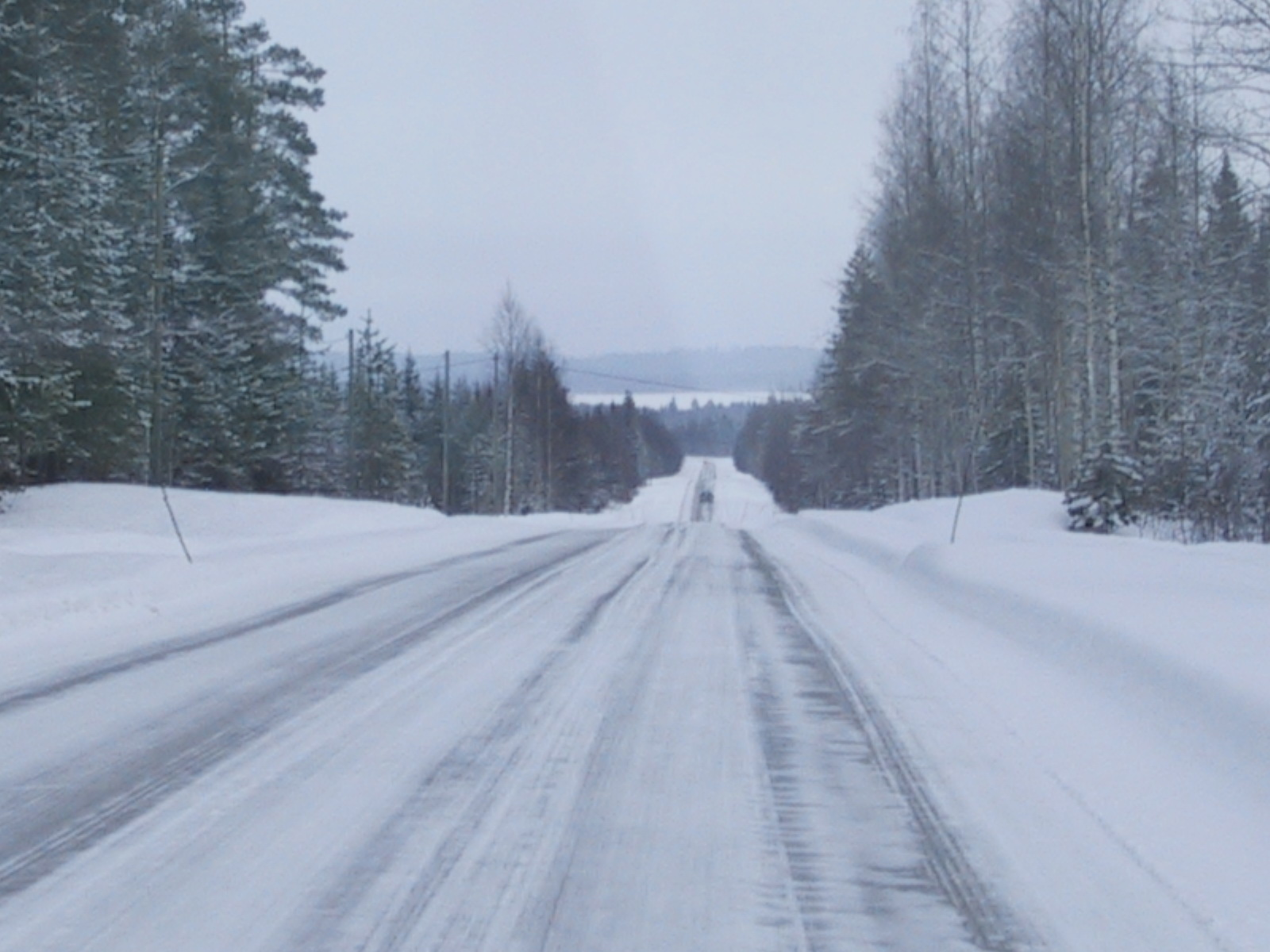 Pesiönlahti bay of Kiantajärvi lake seen from Joukokyläntie road (connecting road 8950) at Vaatovaara hill, Suomussalmi, Finland